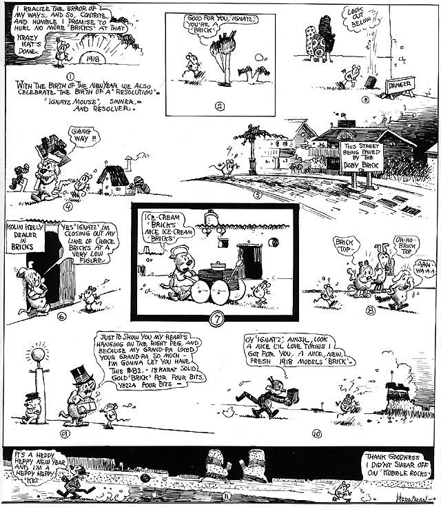 Krazy Kat cartoon from Sunday, January 6, 1918, by George Herriman. In the public domain, Ignatz Mouse resolves not to throw any more bricks at Krazy. Temptation follows him at every turn, and ultimately he finds a loophole to indulge his passion. Found at [1]